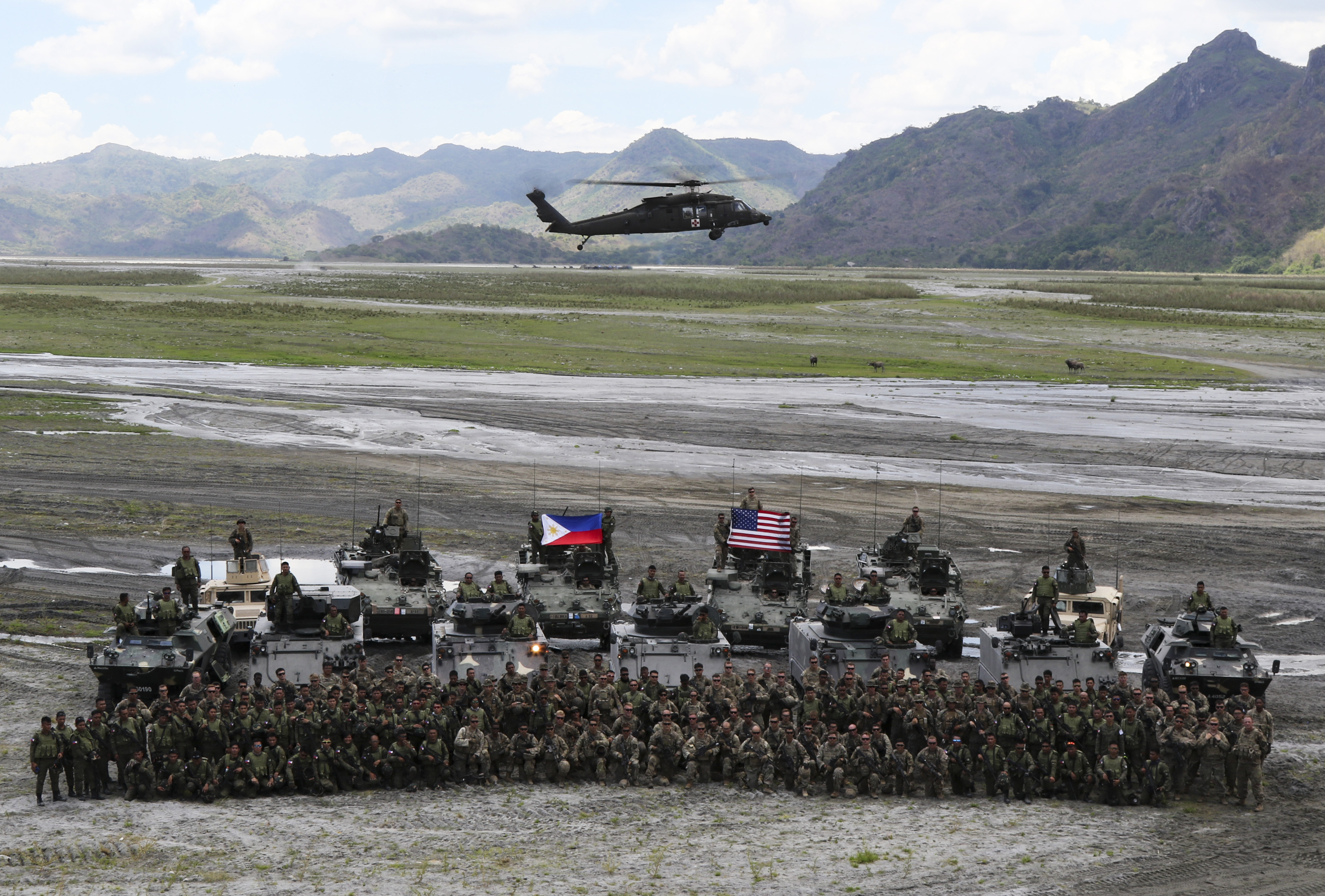 Task Force Regulars, headed by 5th Battalion, 20th Infantry Regiment, 1st Stryker Brigade Combat Team, 2nd Infantry Division and the 1st Brigade Combat Team, Philippine Army, completed a Combined Arms Live-Fire Exercise during Balikatan 2019 at Colonel Ernesto Ravina Air Base, Philippines, April 10, 2019. Balikatan is an annual U.S.-Philippine military training exercise in its 35th iteration which focuses on a variety of missions, including humanitarian assistance, disaster relief, counter-terrorism, and other combined military operations held from April 1 to April 12. Balikatan enables participating forces to maintain a high level of readiness and responsiveness and enhances combined military-to-military relations and capabilities. (U.S. Army Photo by Sgt. 1st Class John Etheridge)